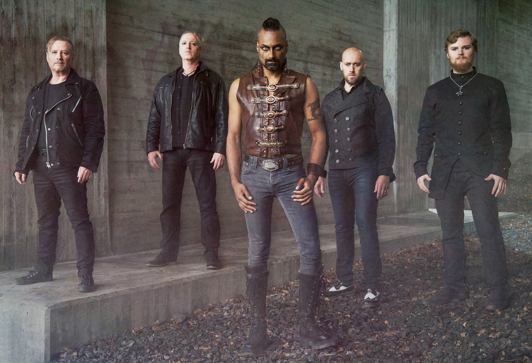 The Soul Exchange, band photo 2017.